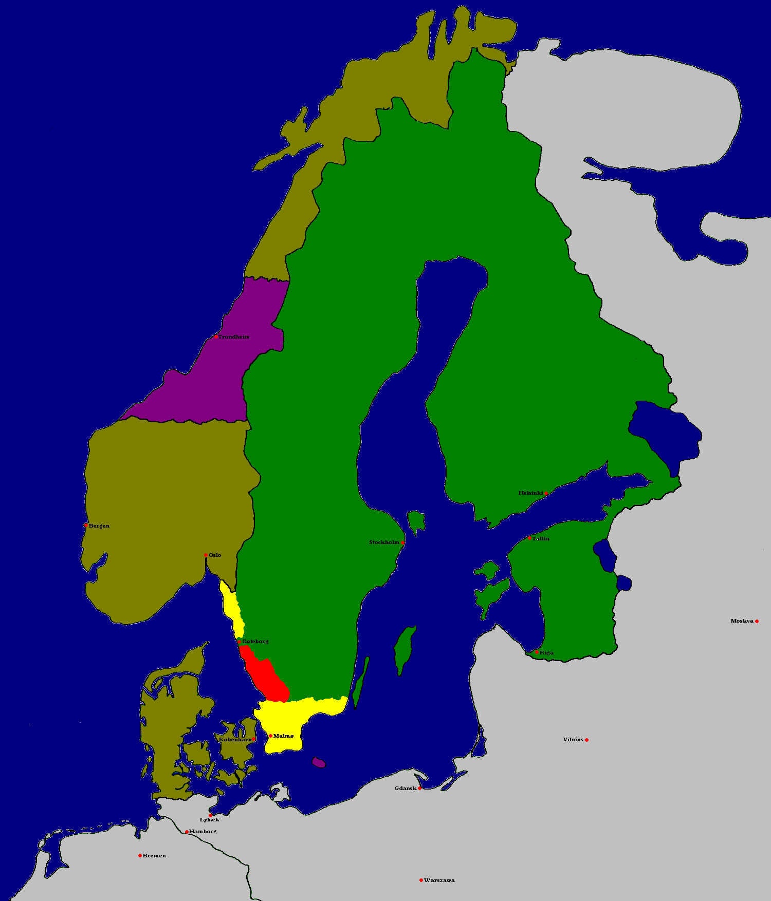 Denmark-Norway ceded the Danish provinces of Terra Scania and the Norwegian provinces of Trondheim and Bahusia to Sweden. In red; Hallandia was already ceded to Sweden for a 30-year period. In yellow; the provinces of Terra Scania and Bahusia. In purple; provinces that were returned to Danish rule as a result of the peace accords in Copenhagen in 1660. Created by Kasper Holl, 2005.